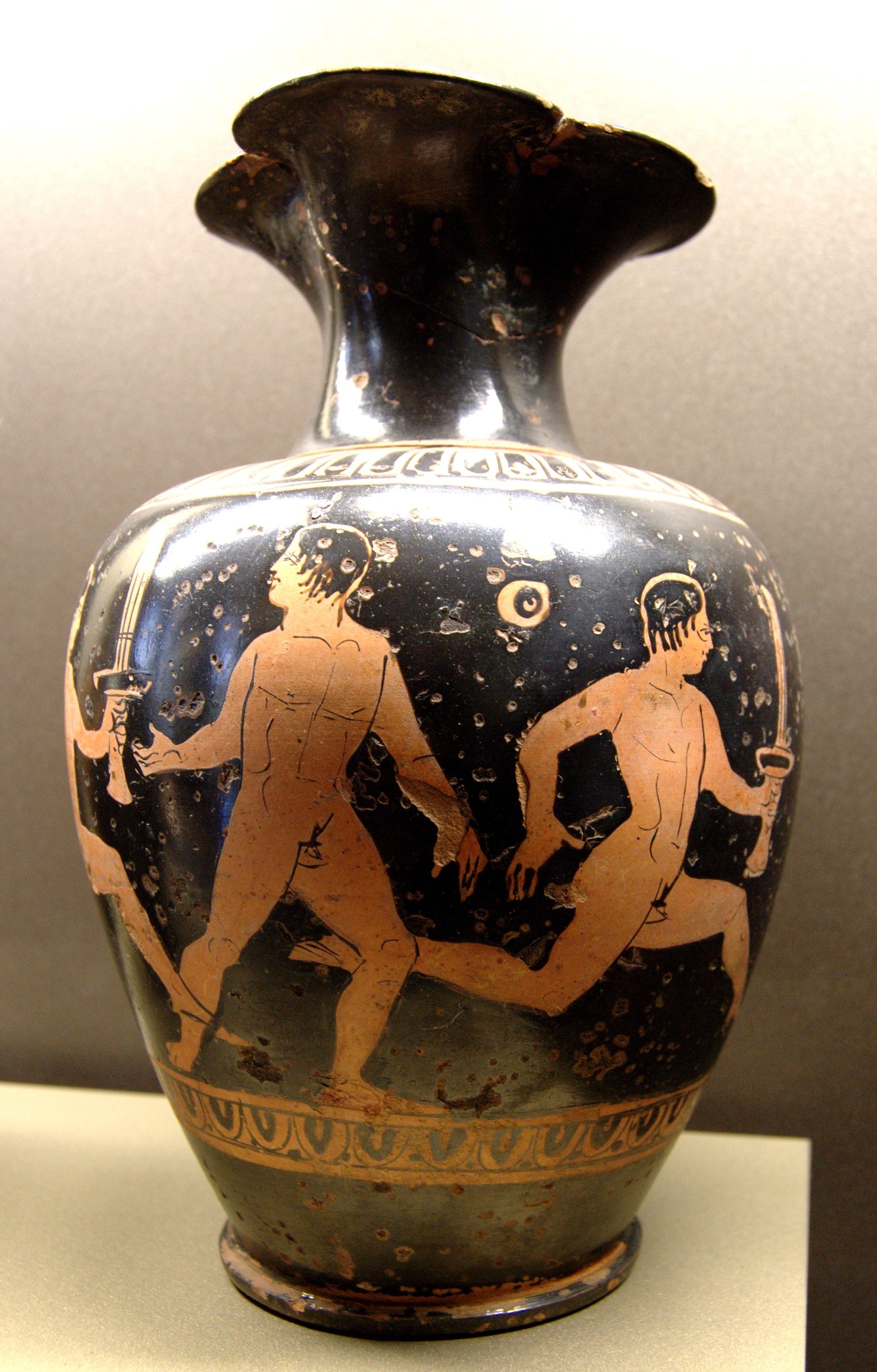 Lampadedromia (torch relay). Attic red-figured oinochoe, 4th century BC. From Italy (?).